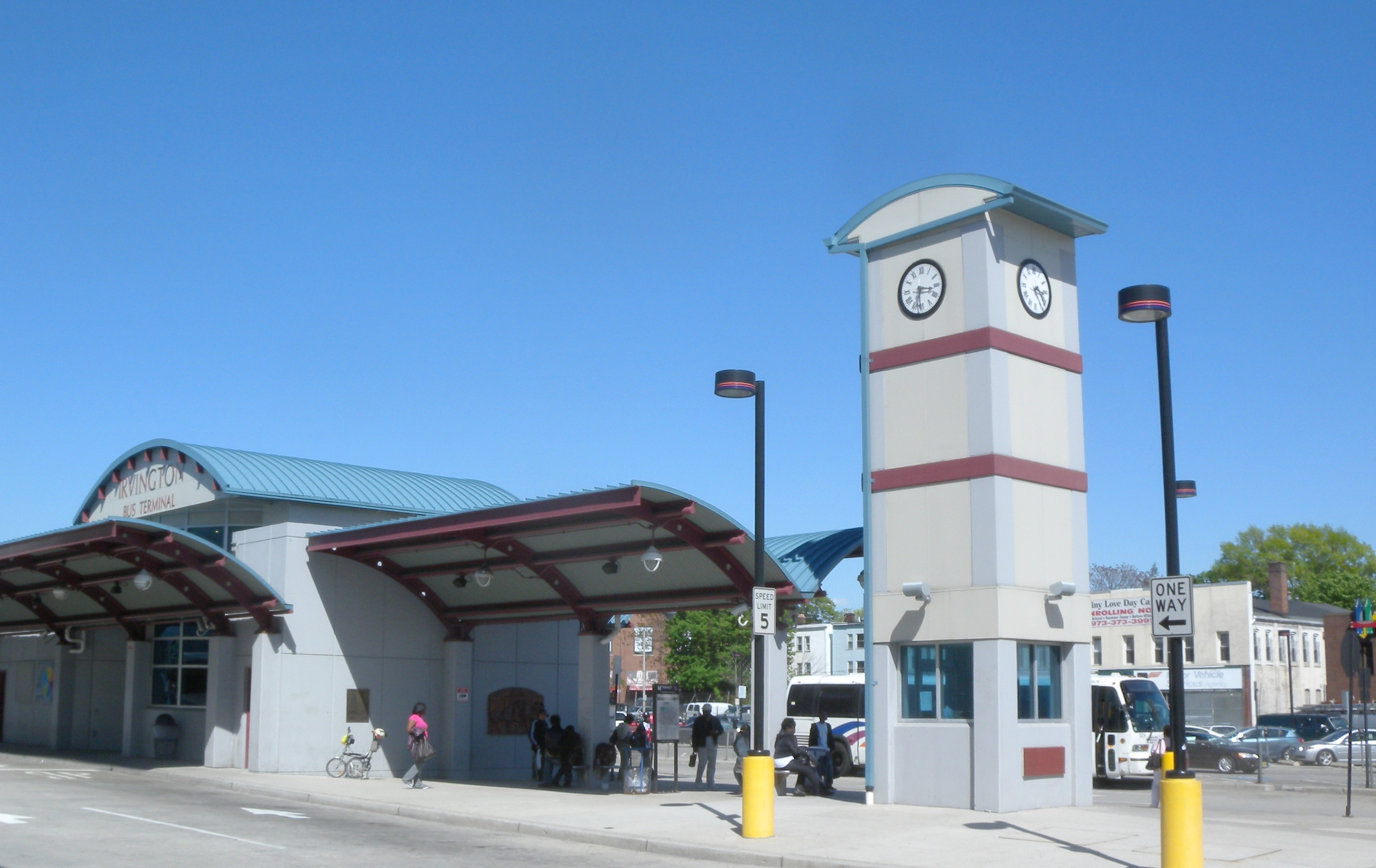 Looking east at Irvington Bus Terminal on a sunny midday. EXIF time disagrees with clock tower because the camera was still on Eastern Standard, not Daylight time. Bicycle is photographer's.